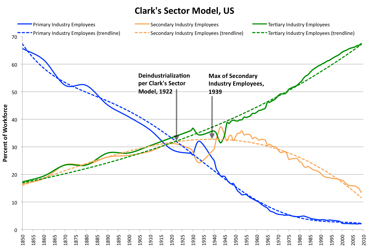 Clark's Sector model for industry sectors in the US economy from 1850 to 2009 Sources: Economic Report of the President: 2011 Report Spreadsheet Tables, B-46. Employees on nonagricultural payrolls, by major industry, 1965-2010, U.S. Government Printing Office [1] (12/29/2011) Economic Report of the President: 2011 Report Spreadsheet Tables, B-35. Civilian population and labor force, 1929-2010, U.S. Government Printing Office [2] (12/29/2011) Economic Report of the President: 2001 Report Spreadsheet Tables, B-46. Employees on nonagricultural payrolls, by major industry, 1950-2000, U.S. Government Printing Office [3] (12/29/2011) Historical statistics of the United States, colonial times to 1970, Volume 1, Chapter D, Labor Force (Series D 1-682), U.S. Bureau of the Census, 1975 [4] (12/29/2011)